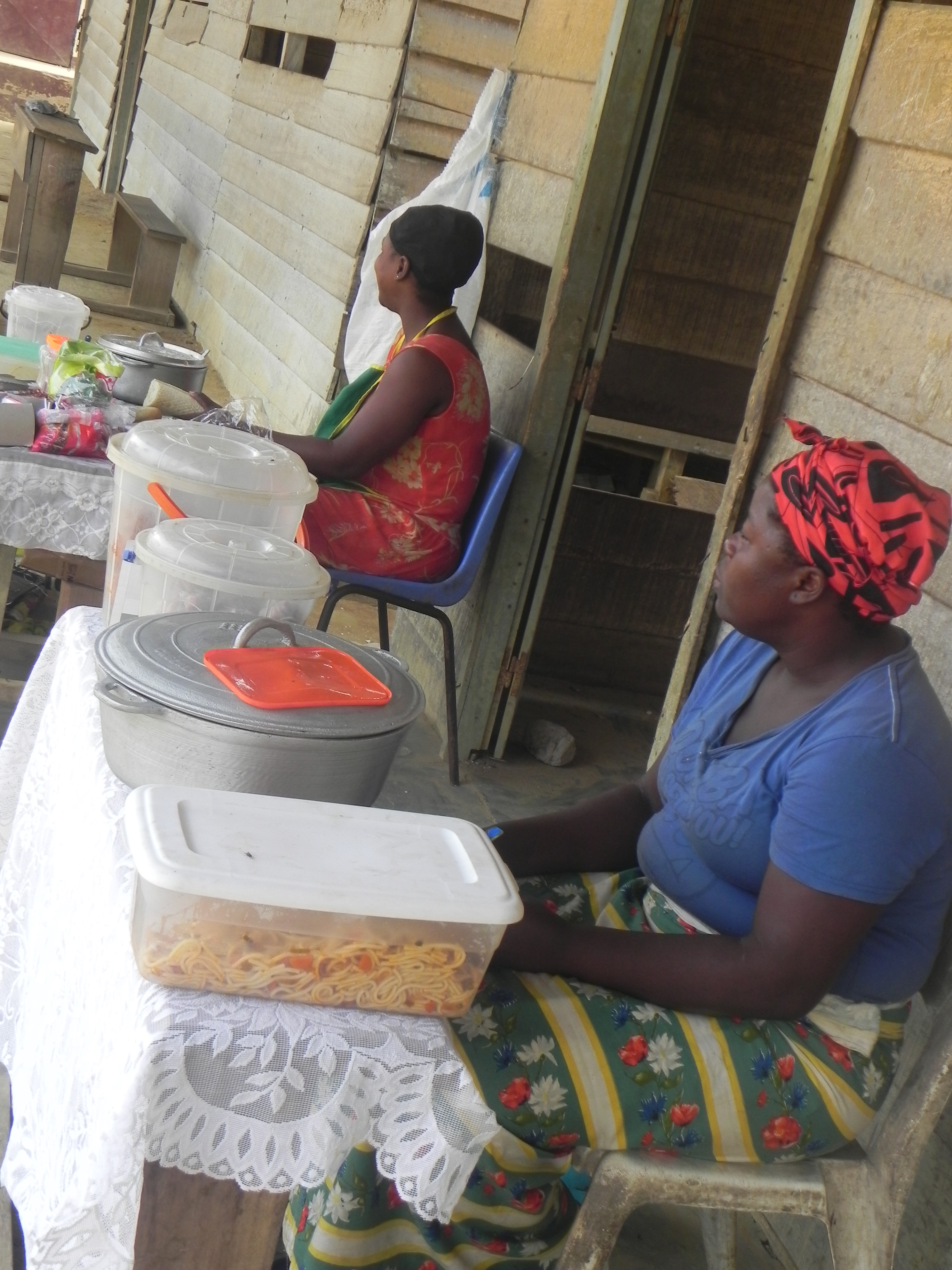 Les commerçantes à la véranda d'une école primaire tout près de Edea au Cameroun This is an image of "African people at work" from Cameroon